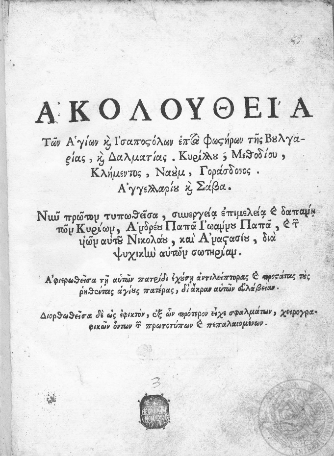 Book cover Evgenios of Etholia